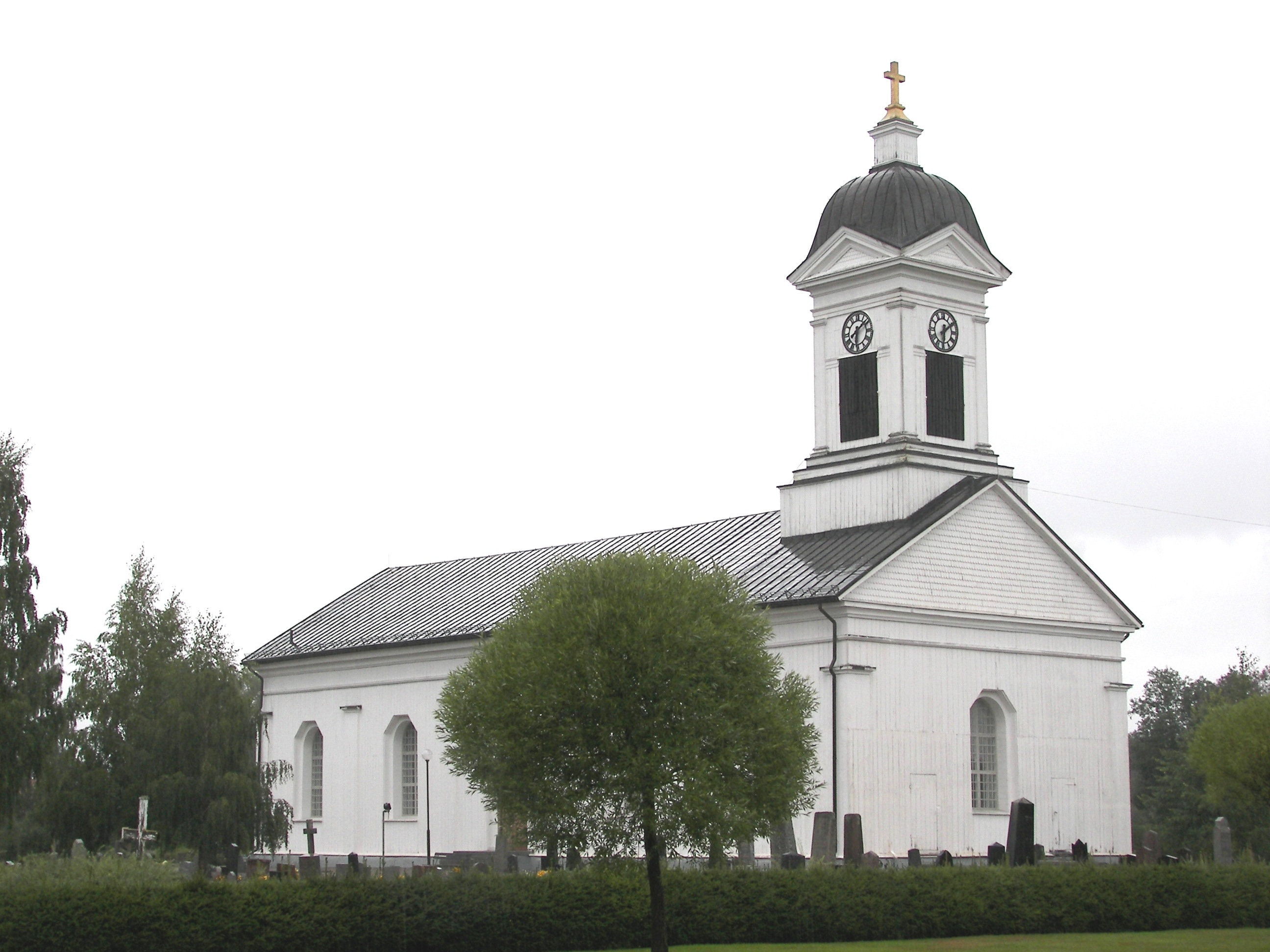 Ådals-Lidens kyrka, Näsåker, Sweden.